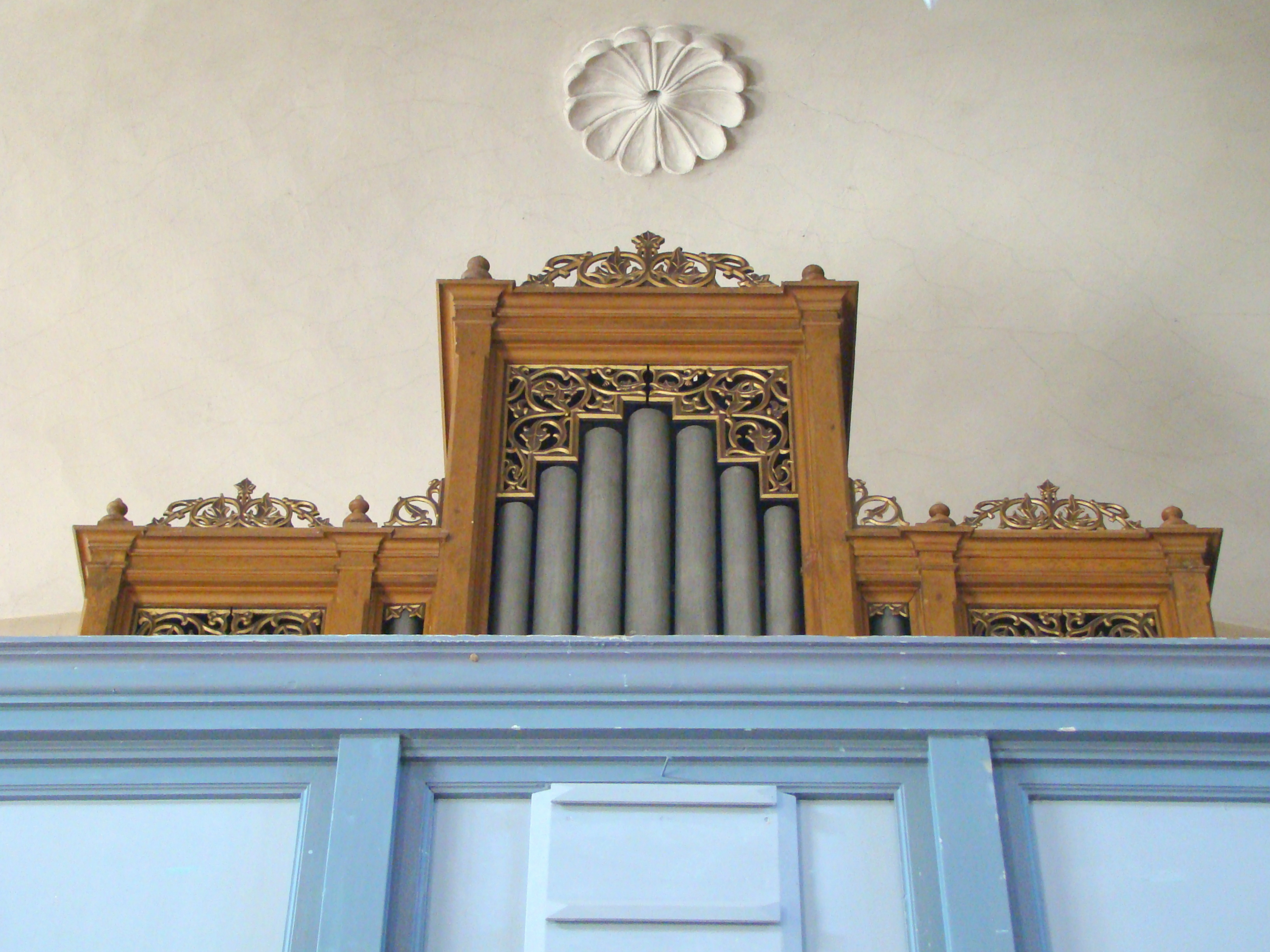 Lutheran church in Făgăraș, Brașov County, Romania